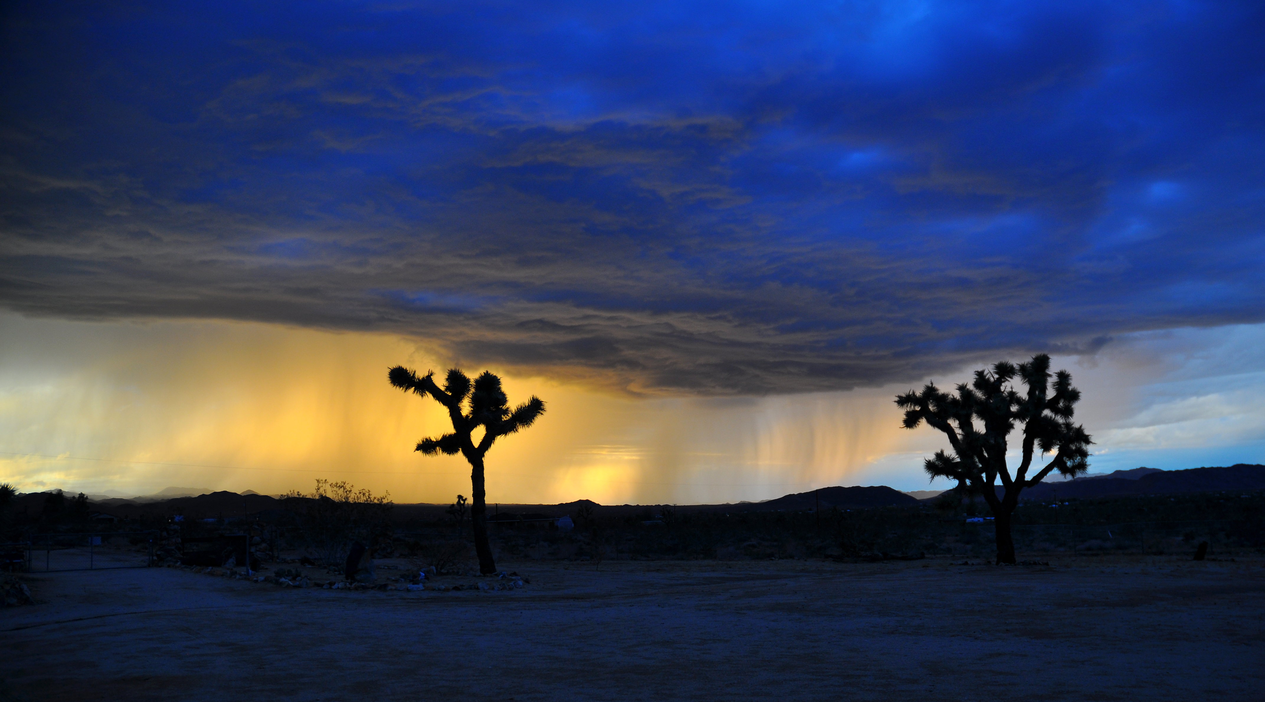 Lightning within the cloud illuminates the entire cloud blanket over the Mojave Desert during an electrical rain storm.